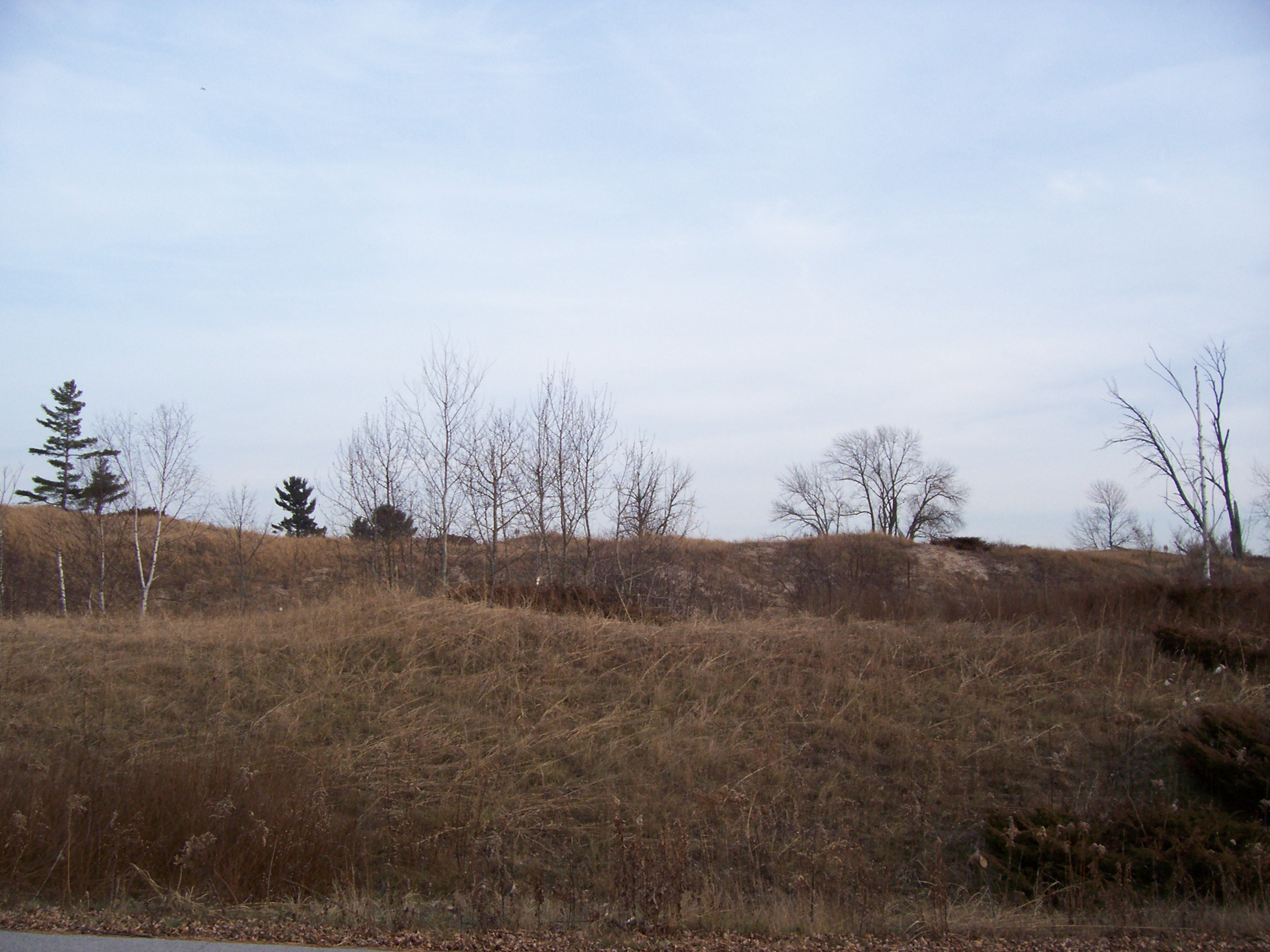 Sand dunes at Kohler Andrae State Park in the Town of Wilson near Sheboygan, Wisconsin, USA.